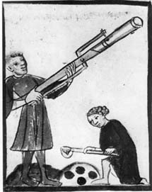 A man with a handgonne with a matchlock and a man probably casting lead bullets. From Johann(es) Hartlieb: Kriegsbuch. Austrian National Library Cod. 3069, page 38v, ca 1411.